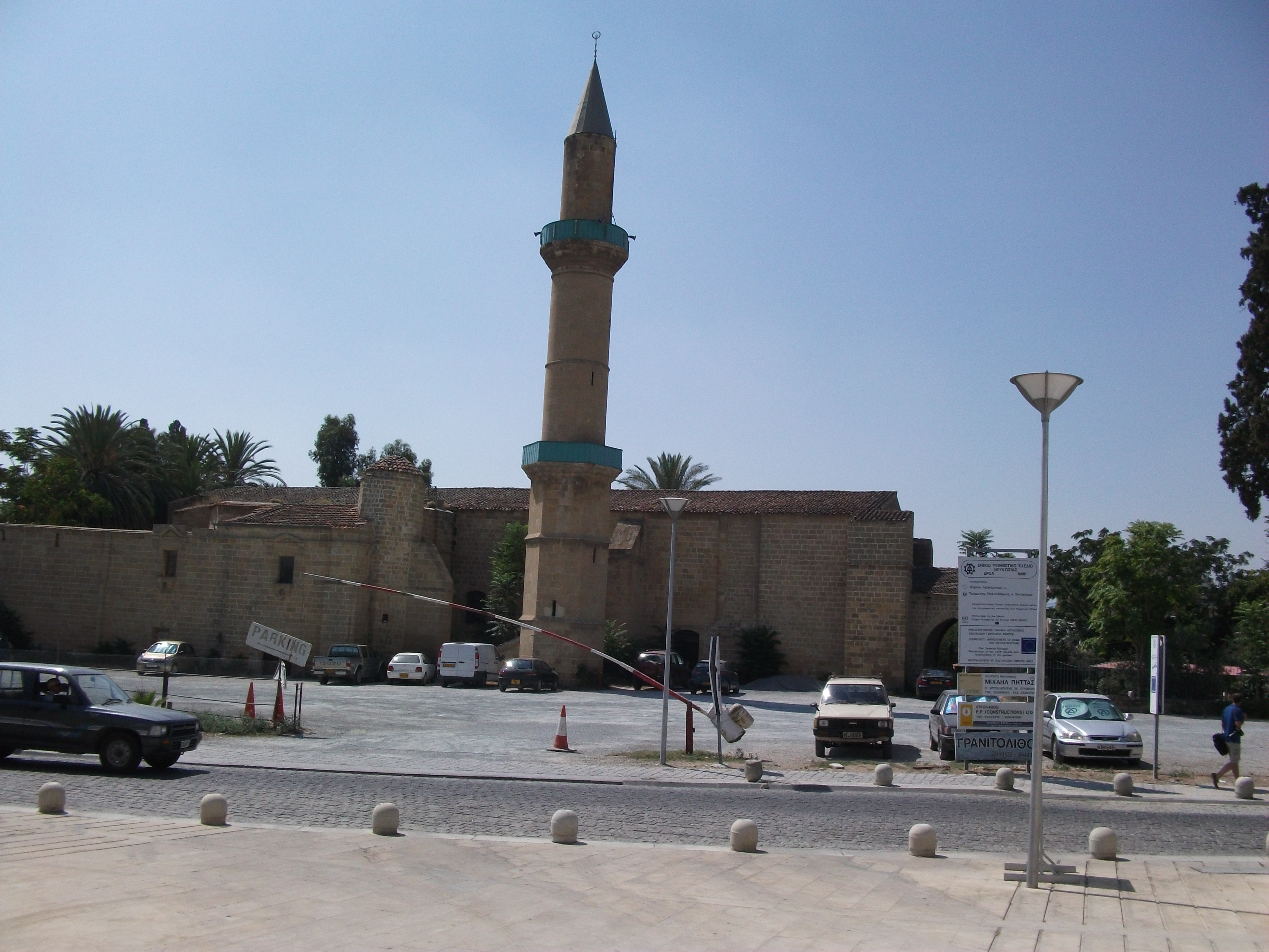 The only functioning mosque in Greek Nicosia.